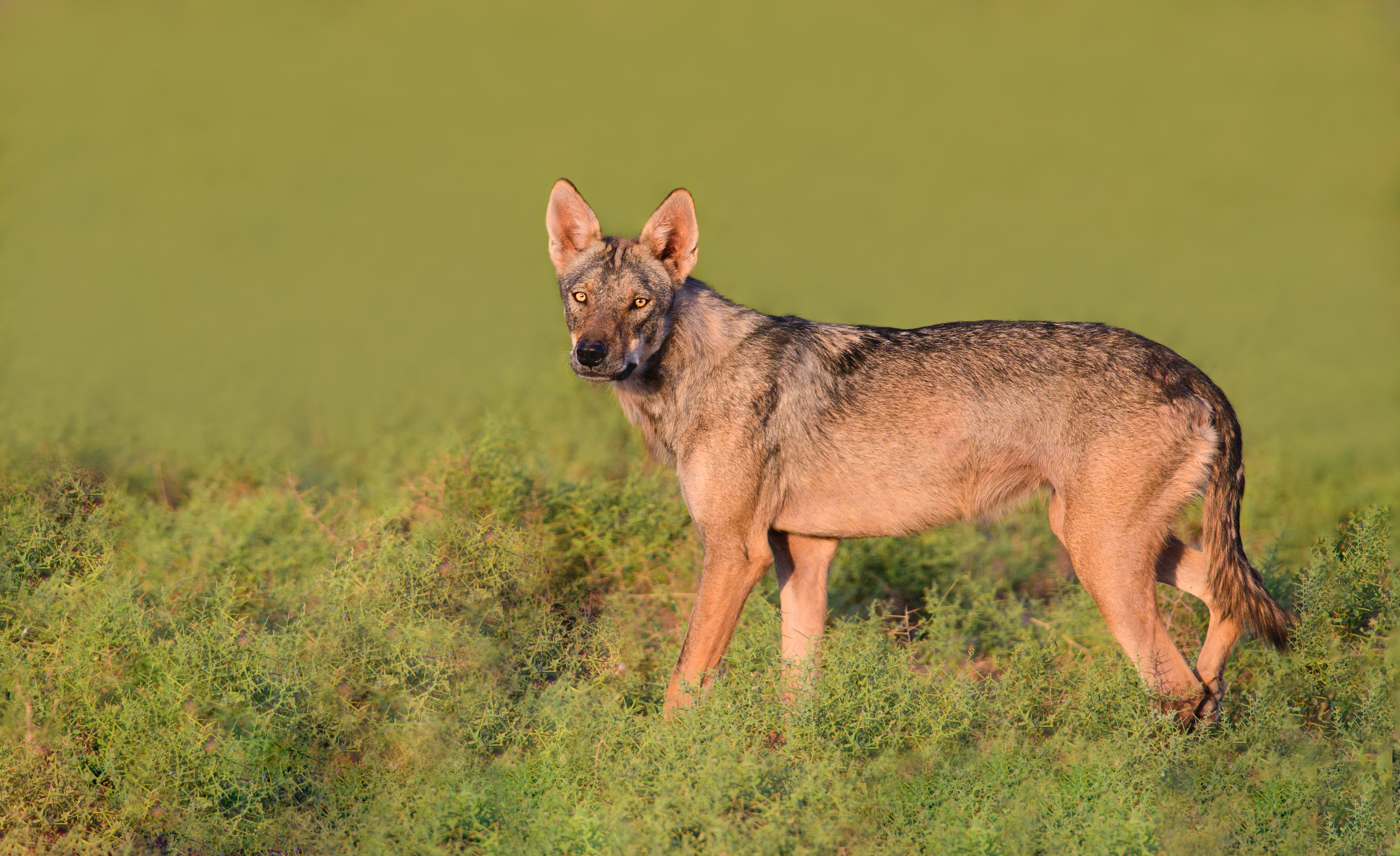 Wolfdog in Shirahmad wildlife refuge of Sabzevar, Iran